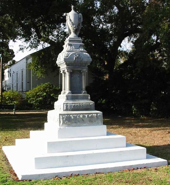 John Gorrie Monument. Located in Gorrie Square, Apalachicola, Florida. The monument was unveiled on April 30, 1900. Photograph by J. Williams (Jan 5, 2004).